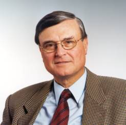 Prof.Dr. Dieter Planck Author: Own Date: 2003